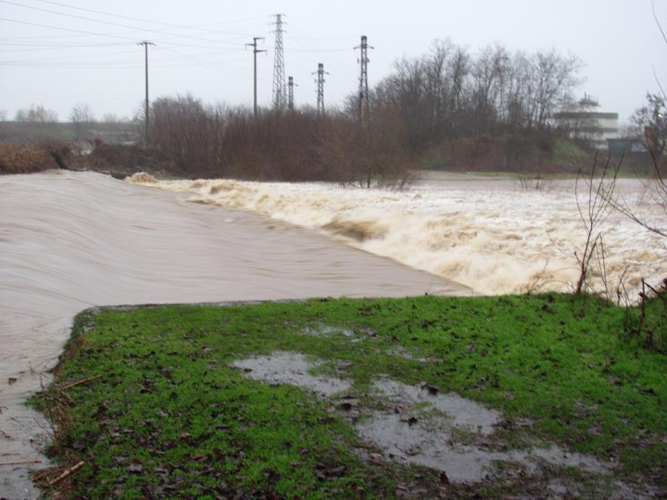 Creek Agogna